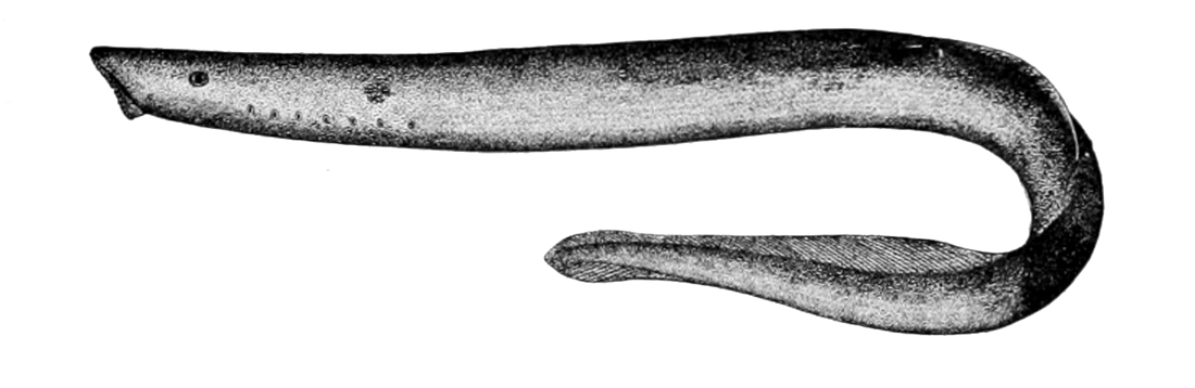 Lampetra camtschatica (=Lethenteron camtschaticum)